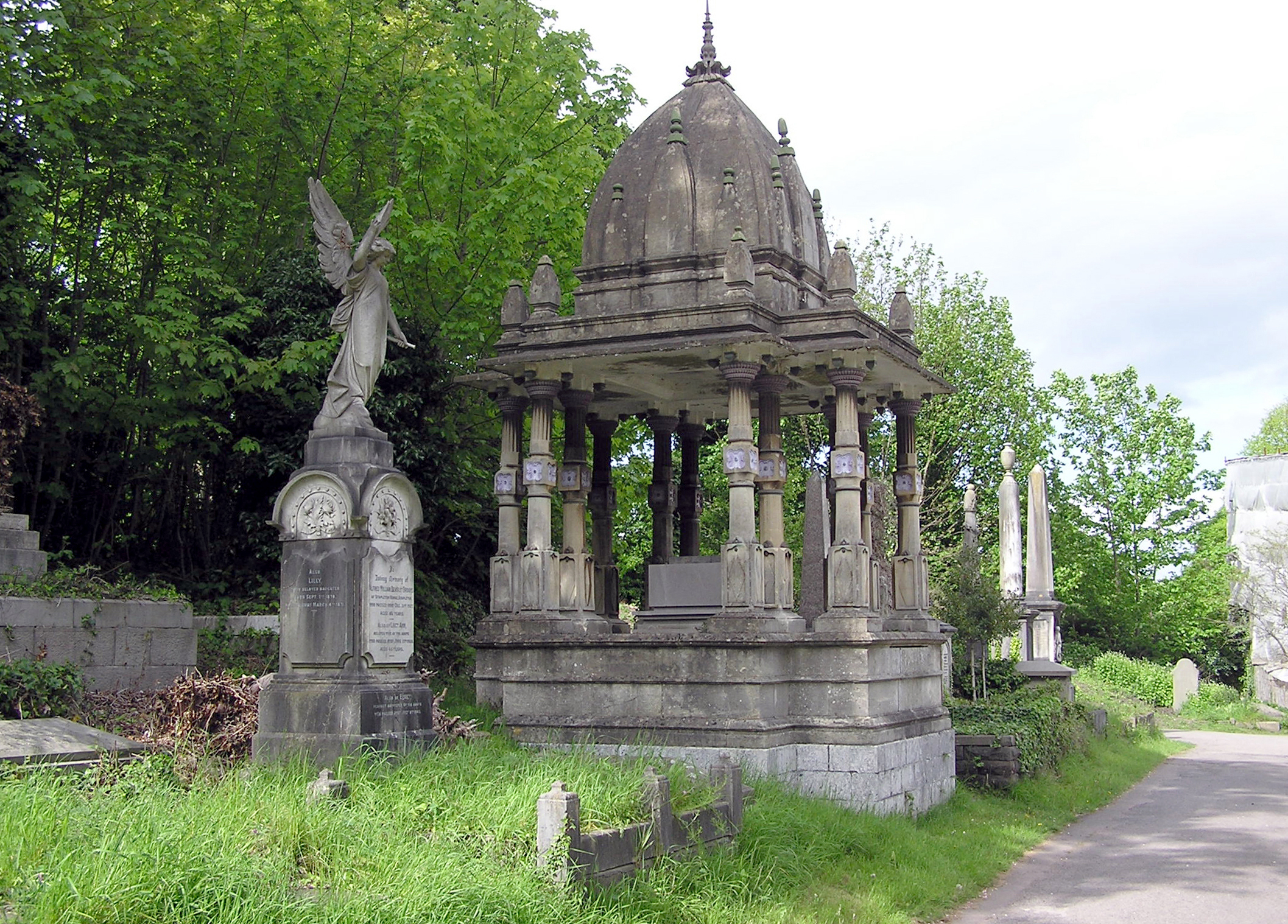 Tomb of Raja Rammohun Roy in Arnos Vale Cemetery, Bristol, England.